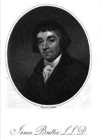 Dr en.James Beattie (writer), (1735-1803)